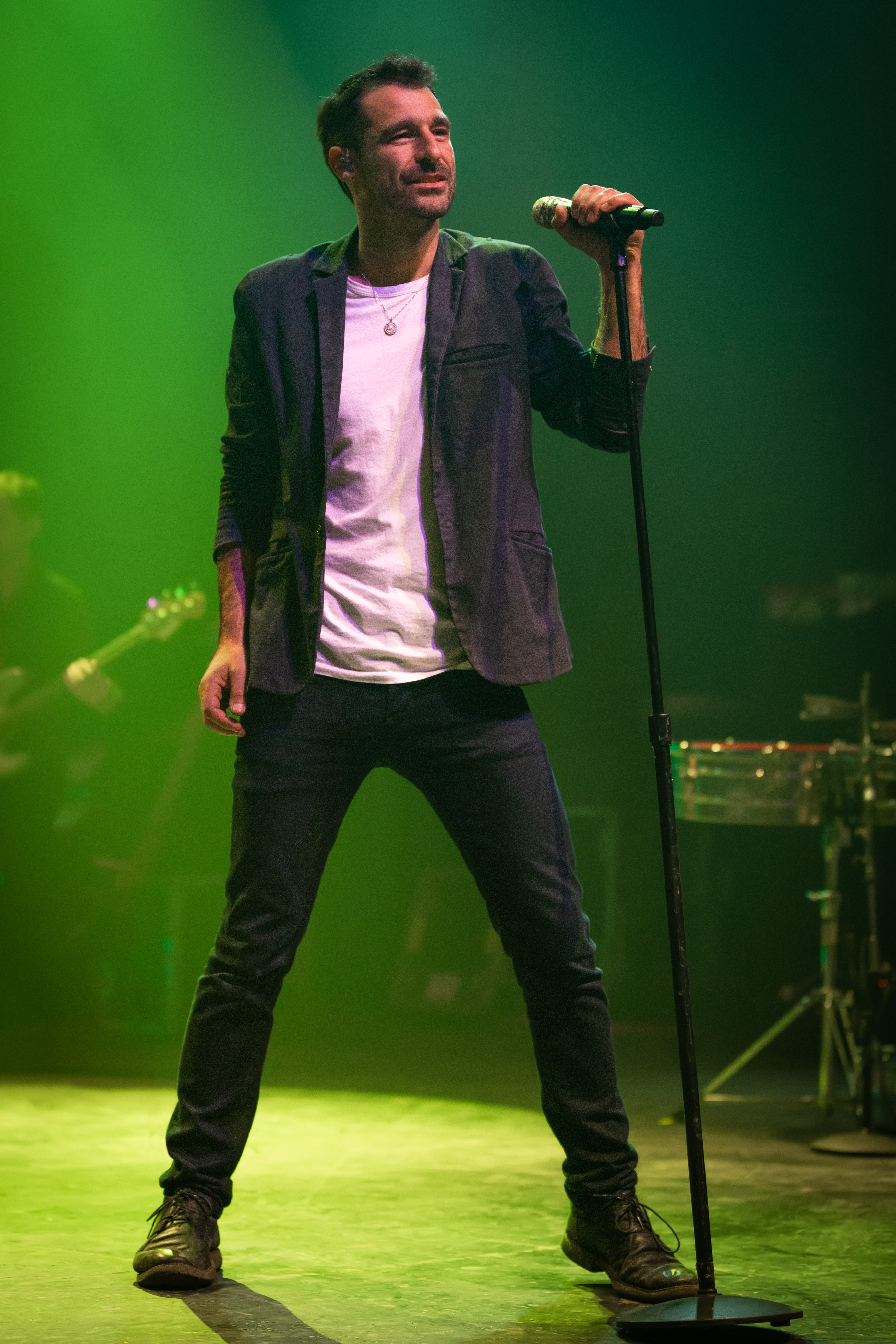 Felix Riebl is a singer, songwriter, composer, co-founder and "The Cat Empire" band leader (concert in Toronto, March 2019)